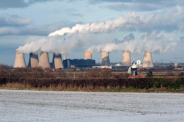 West Burton and the WindMill